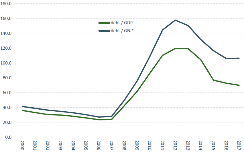 Recreation of Department of Finance graph of Irish Public Debt-to-GDP and Public Debt-to-GNI* from 2000 to 2017 (inclusive)